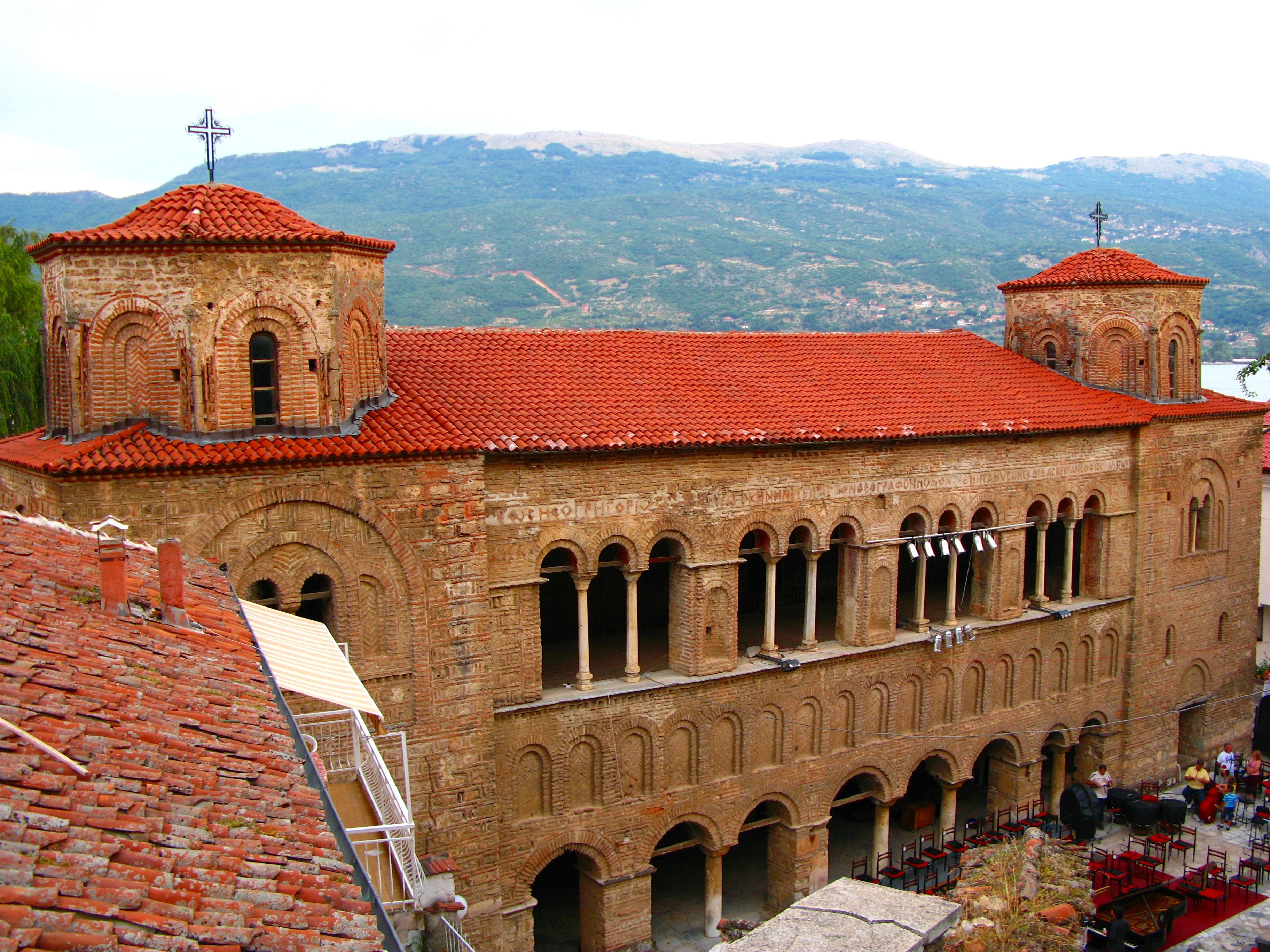 Saint Sophia church, Ohrid, Macedonia.